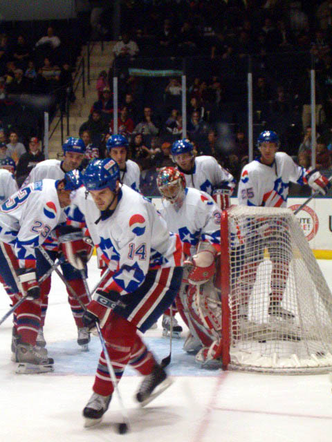 Rochester Americans (Amerks), hockey team of the AHL